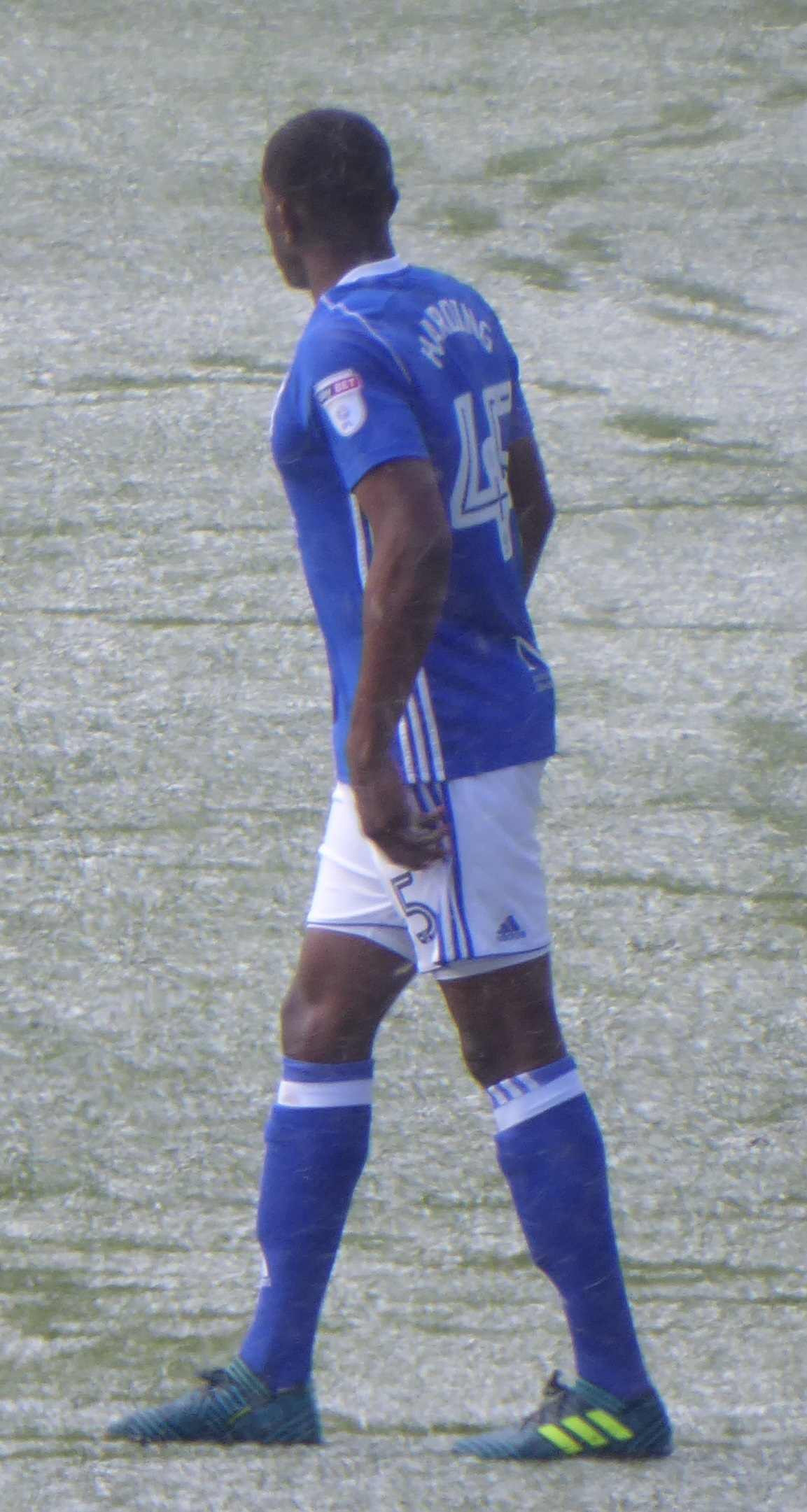 Wes Harding making his EFL Championship debut for Birmingham City F.C. at St Andrew's on 17 March 2018